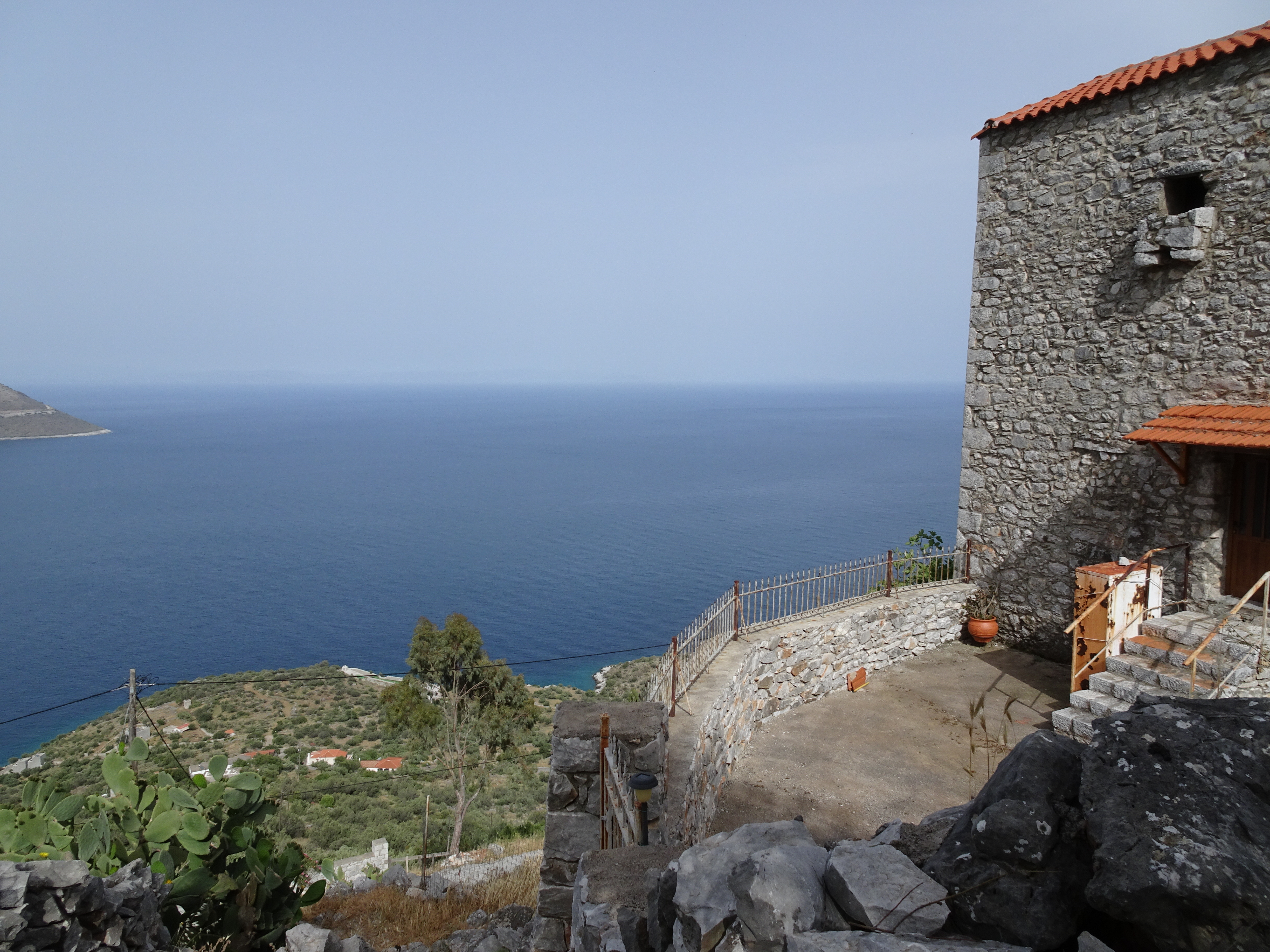 mani greece, a unique place full of stone